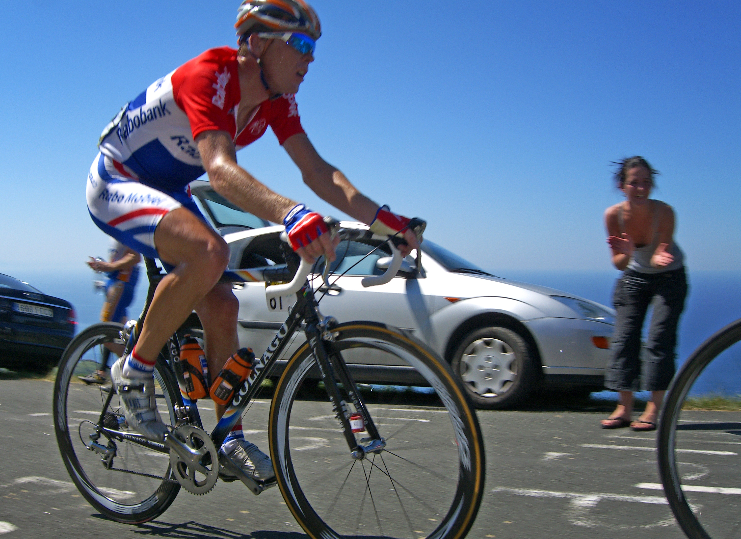 Koos Moerenhout at the Classica San Sebastián 2007